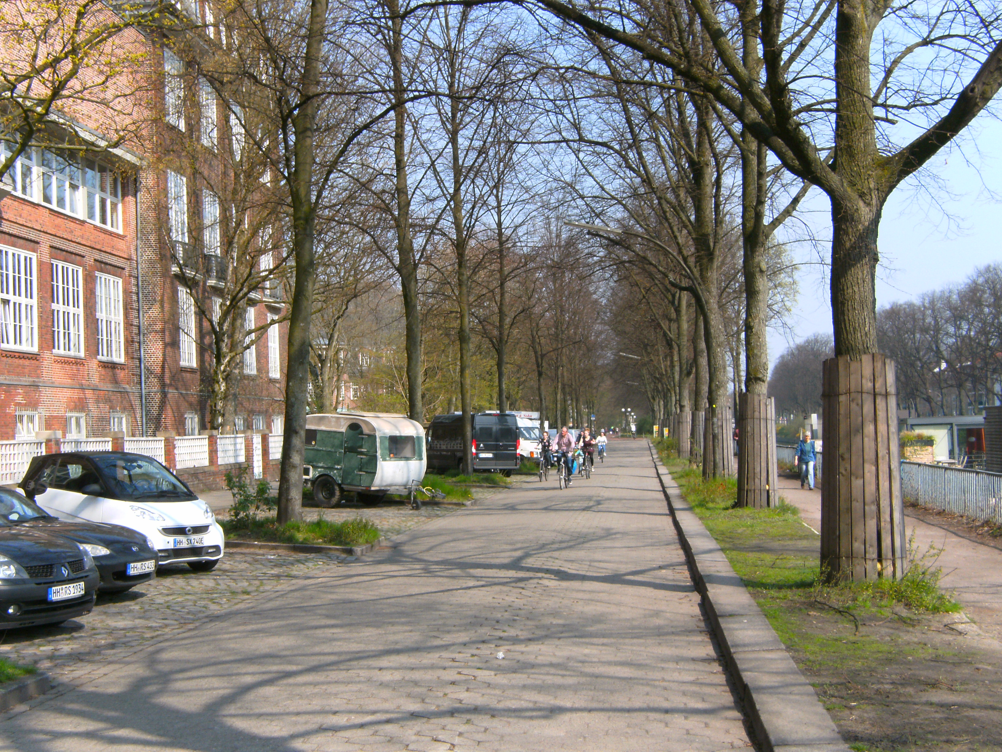 Hamburg, Germany, Uferstraße, passing Hochschule für Bildende Künste: Veloroute 6 (route for cycling).